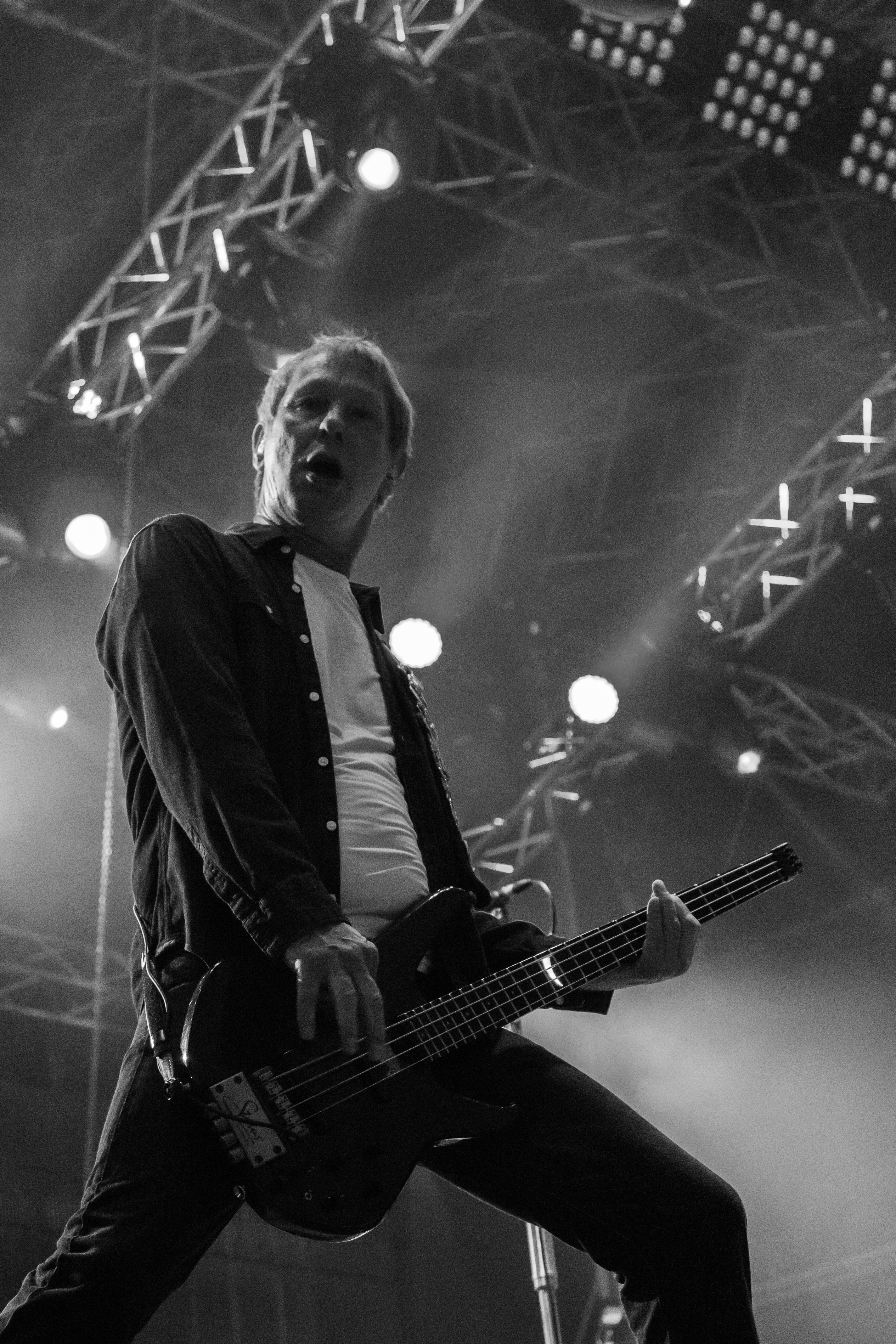 John 'Rhino' Edwards from Status Quo at the See-Rock Festival 2014